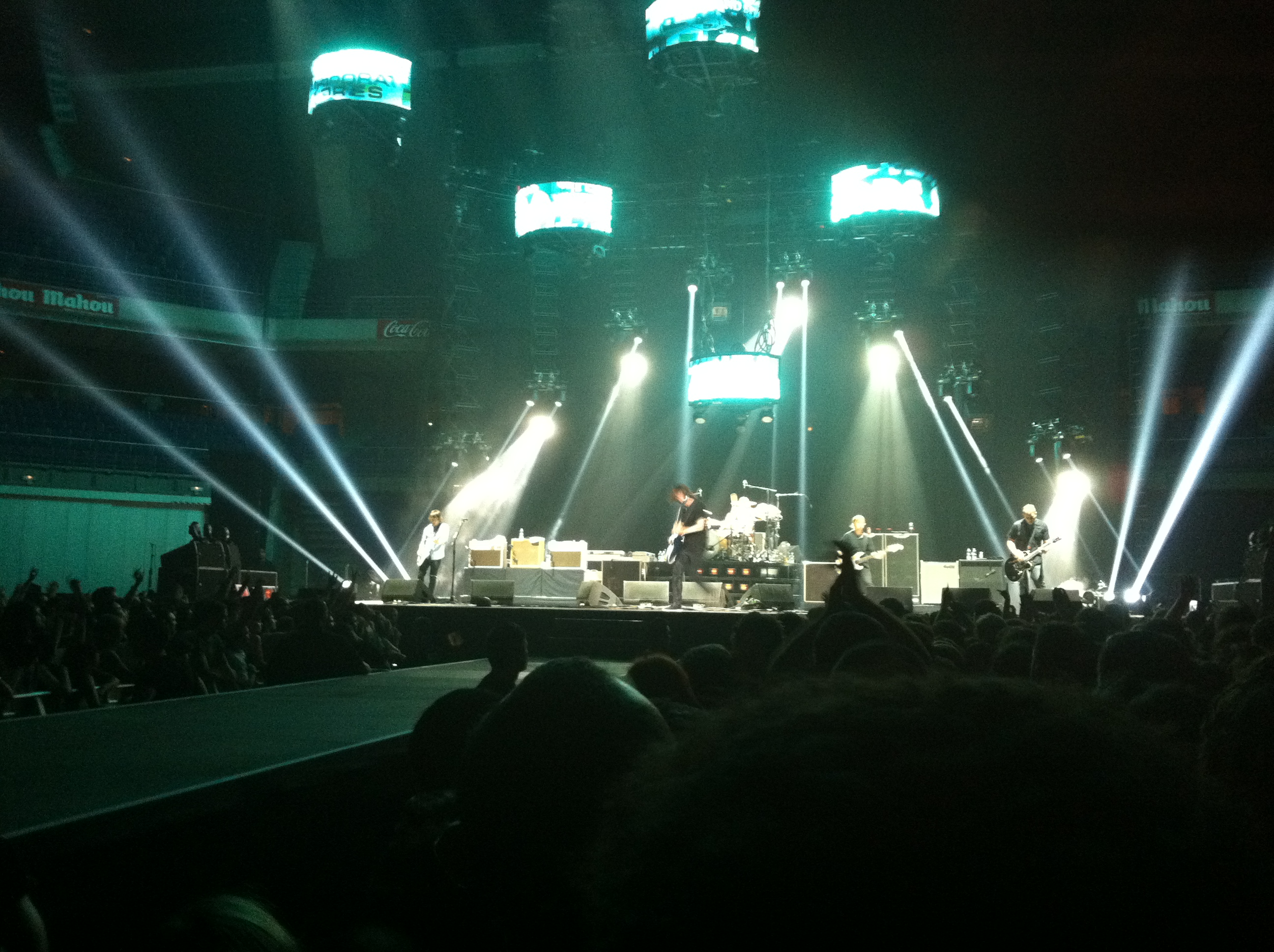 Foo Fighters concert in the "Palacio de Deportes de la Comunidad de Madrid".